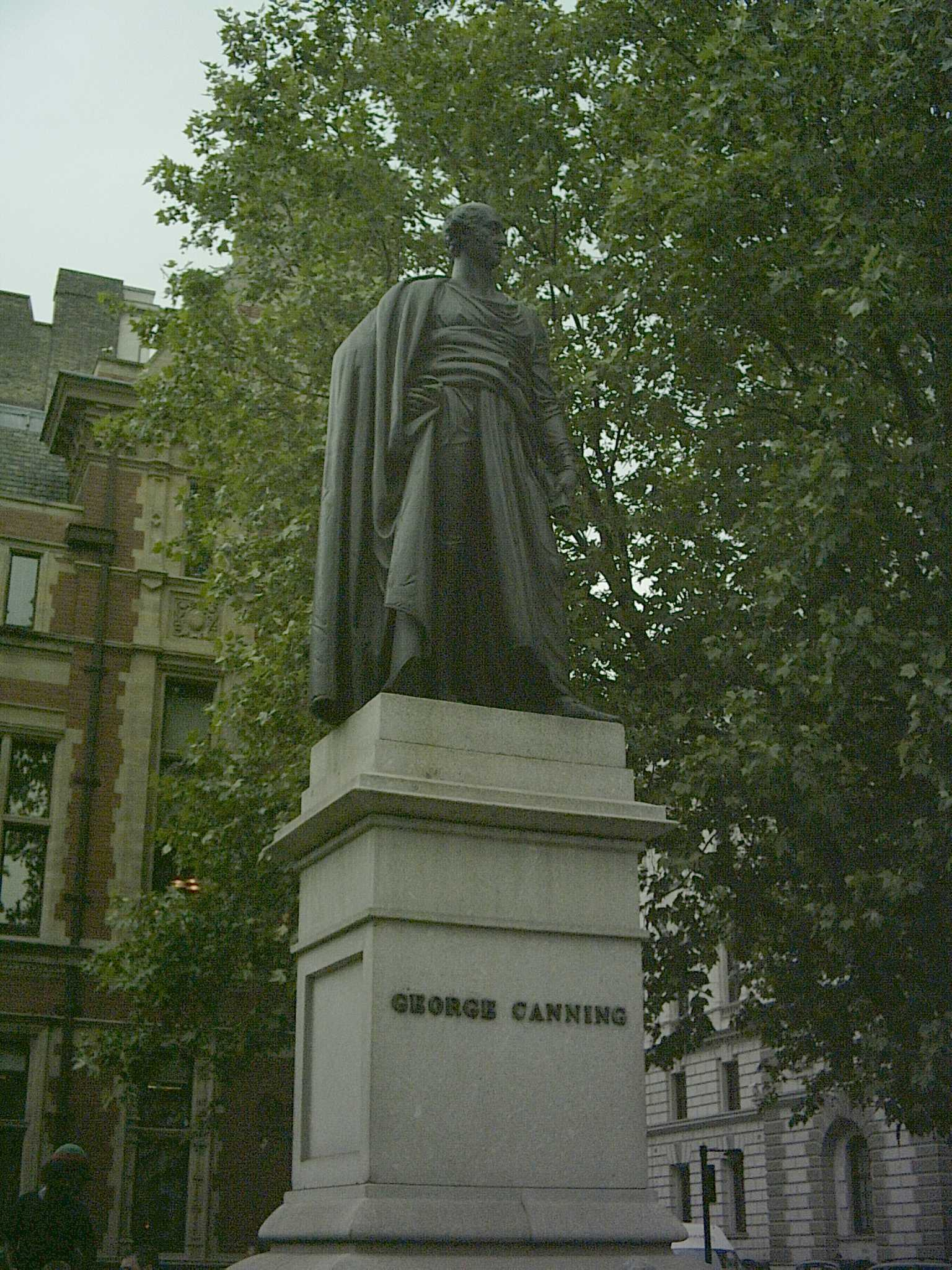 George Canning statue in Parliament Square, London. ...facing the Houses of Parliament, is a fine bronze statue of George Canning, standing upon a granite pedestal. It was executed by Sir Richard Westmacott, and erected in 1832. It formerly stood nearer to Westminster Hall, but was removed hither a few years ago, when sundry alterations were made in the laying out of the open space between King Street and the north door of the Abbey. Soon after Canning's statue was put up in all its verdant freshness, the carbonate of copper not yet blackened by the smoke of London, Mr. Justice Gaselee was walking away from Westminster Hall with a friend, when the judge, looking at the statue (which is colossal), said, "I don't think this is very like Canning; he was not so large a man." "No, my lord," replied his companion, "nor so green.". From 'Westminster: King St, Great George St and the Broad Sanctuary', Old and New London: Volume 4 (1878), pp. 26-35. URL: Date accessed: 25 March 2008.